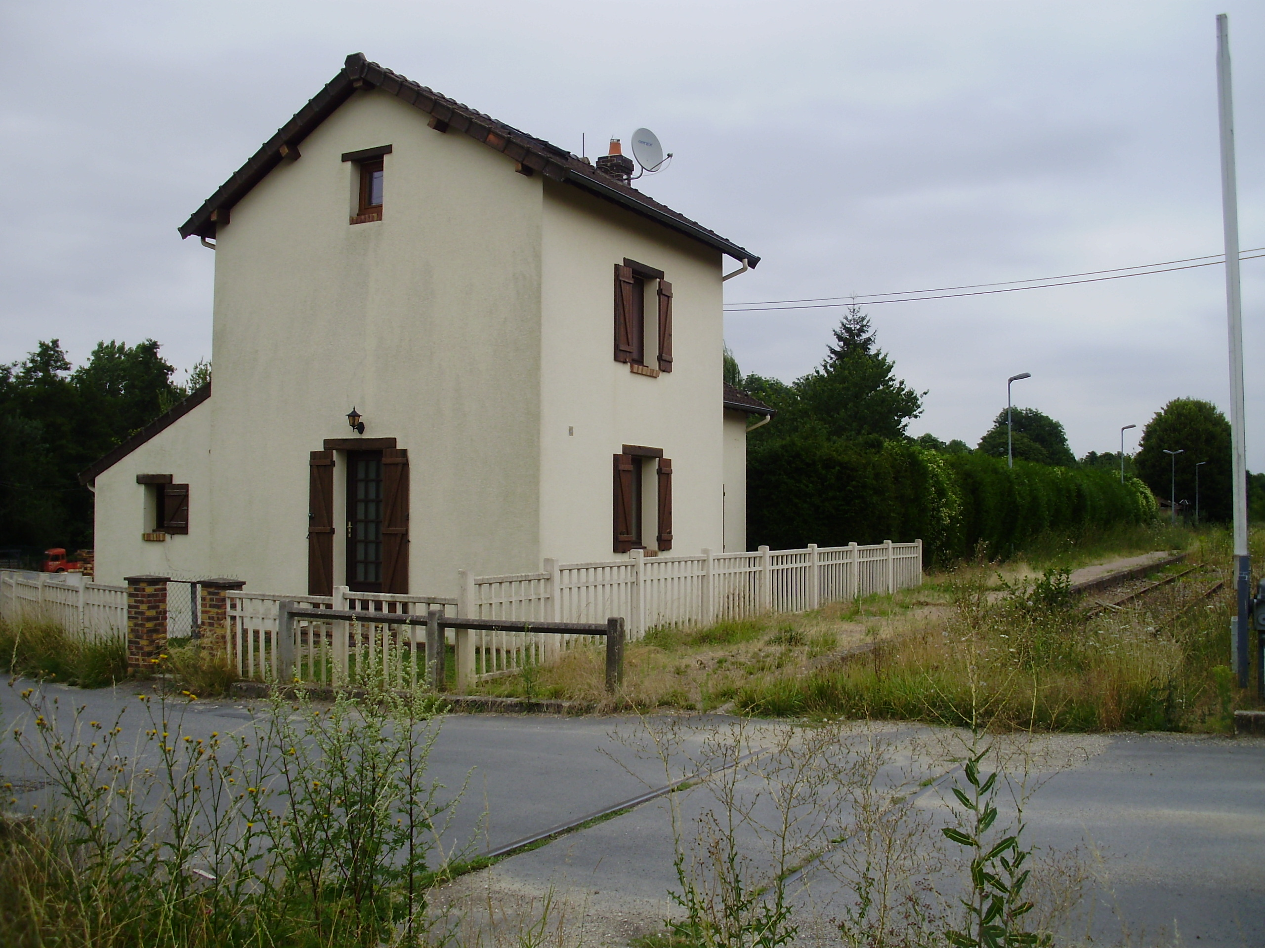 Platform of the disused station of Chailly - Boissy-le-Châtel, in Chailly-en-Brie, Seine-et-Marne, France